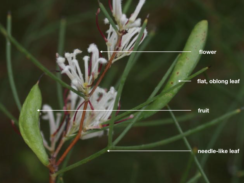 Labelled image of Hakea trifurcata showing the dimorphic leaves and fruit resembling the oblong leaves.